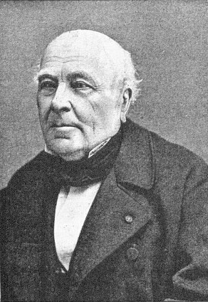 Portrait of Adolphe Chéruel by Eugène Pirou